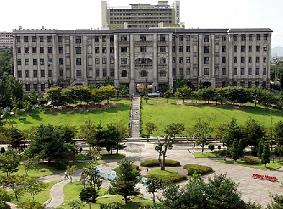 The picture is about a previous campus of UI in dohwa.